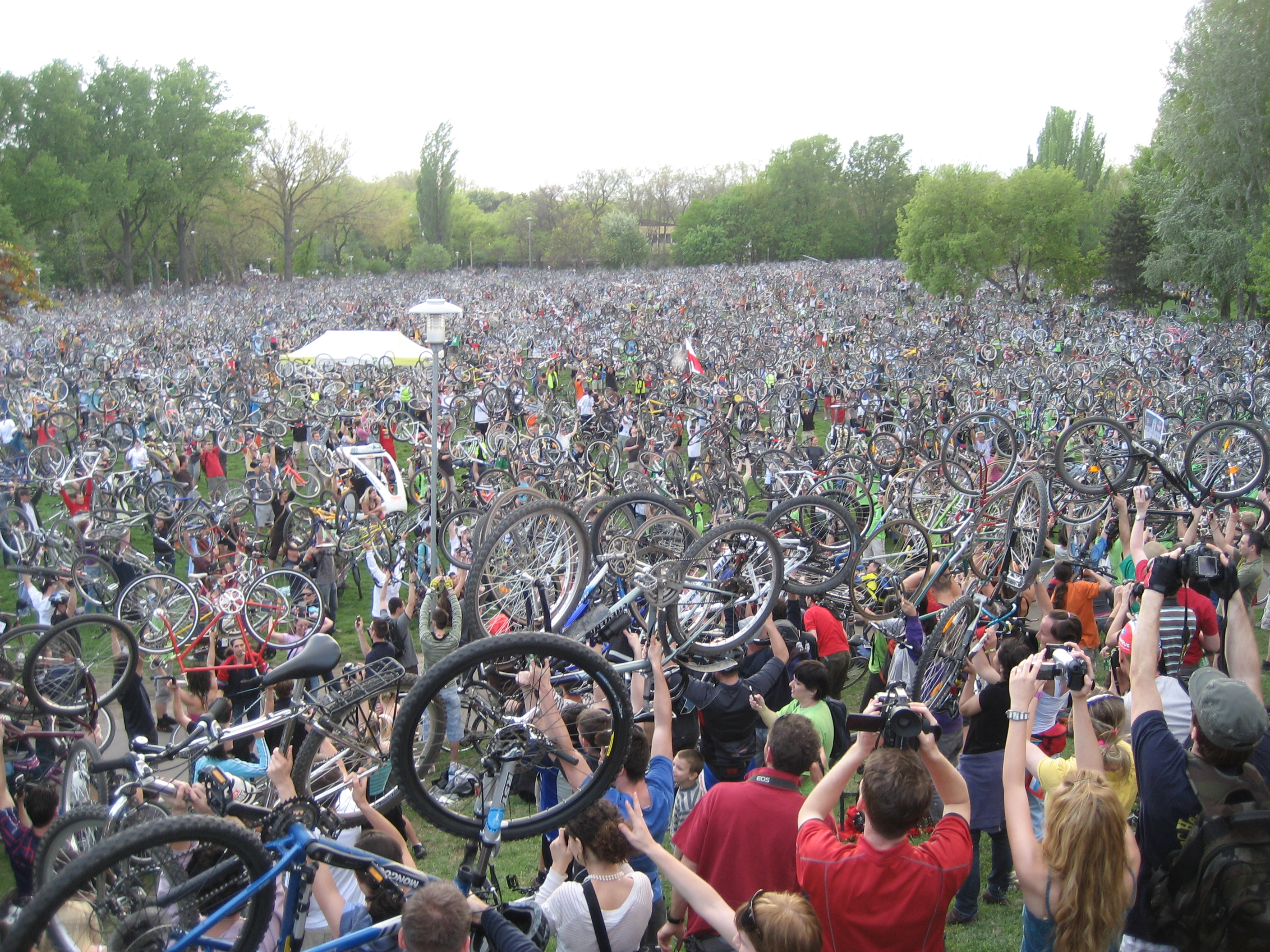 Critical Mass in Budapest, April 19, 2009